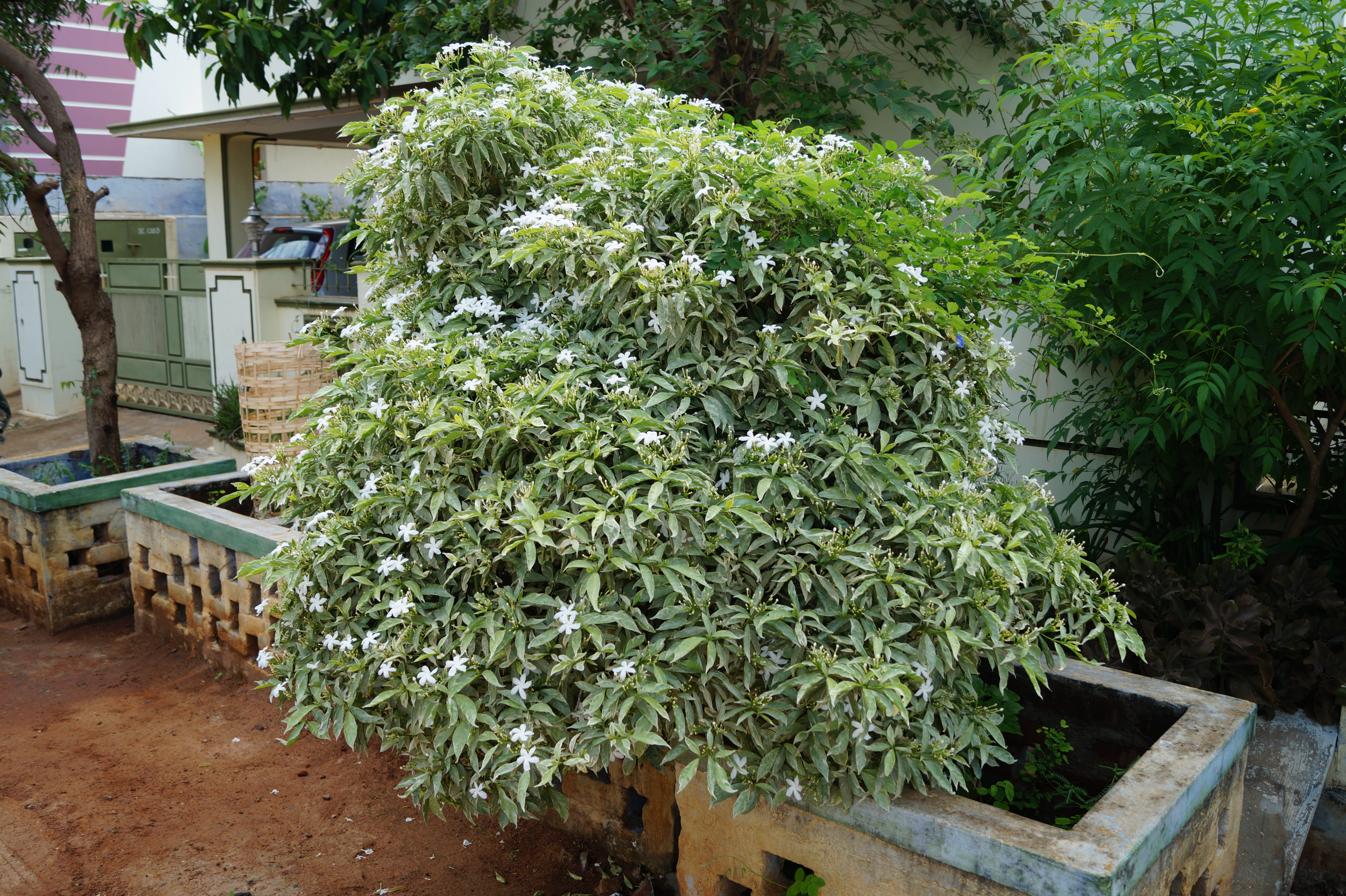 a variety of crape jasmine